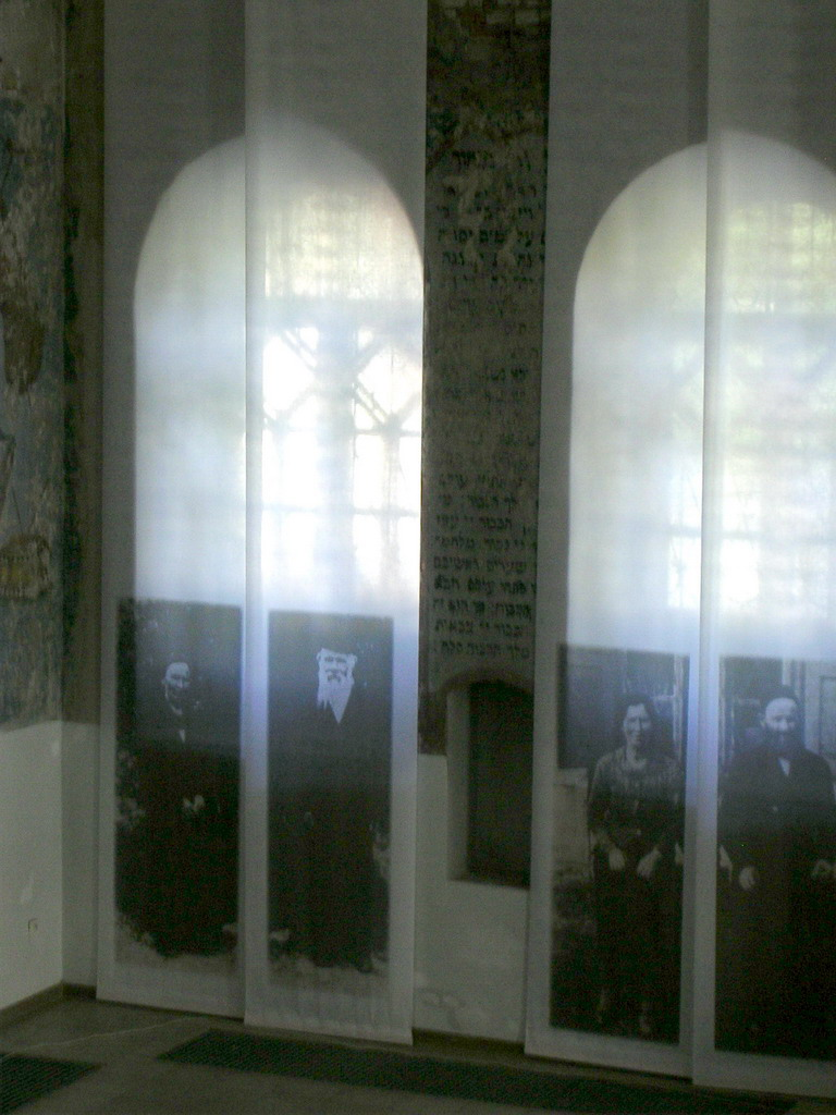 Small Synagogue in Włodawa, Poland. Exhibition called "Chasidim of Włodawa". Photograph taken during the 9th Festival of Three Cultures in Włodawa.